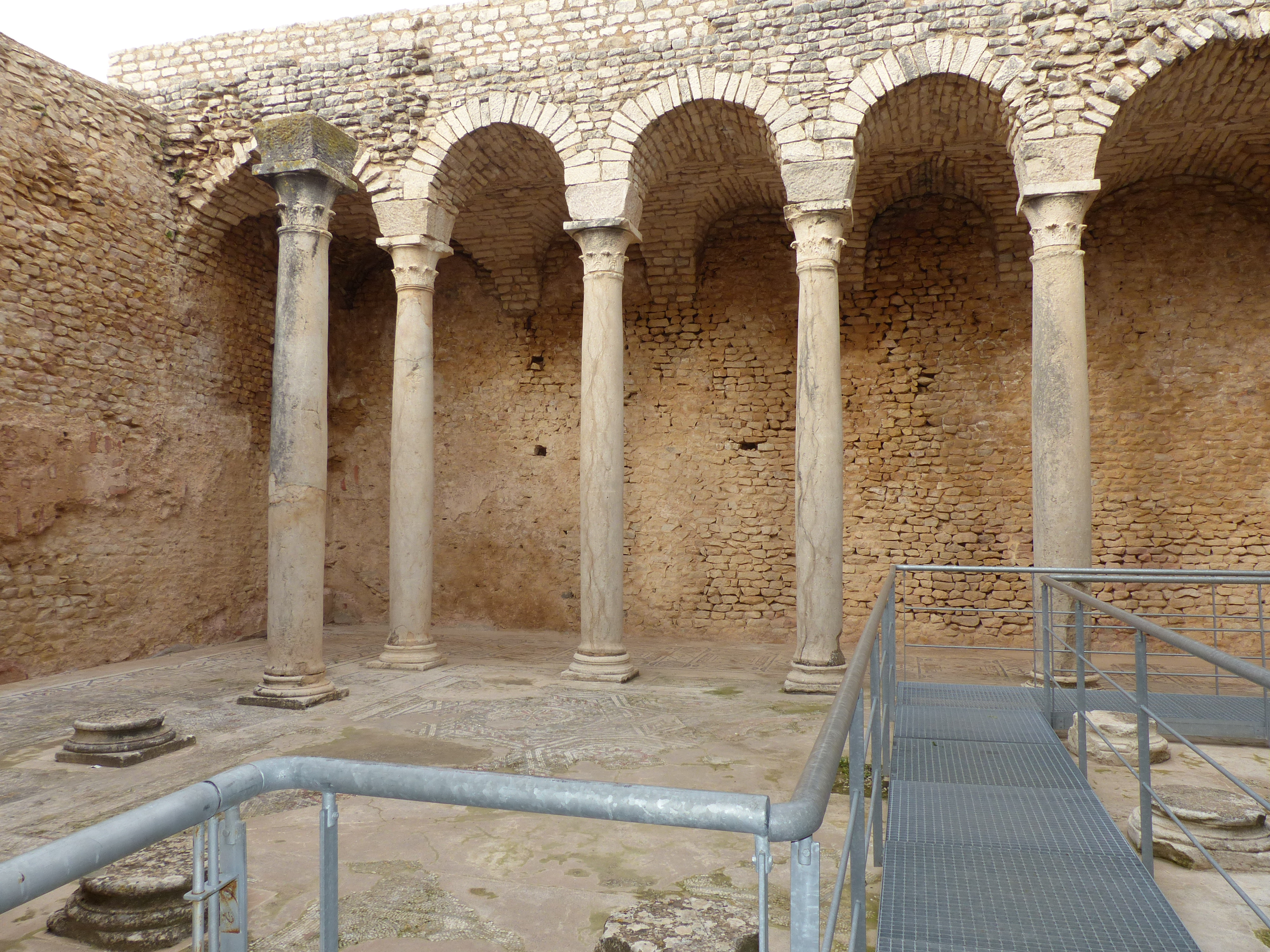 Dougga is an ancient Roman city in northern Tunisia, included in a 65 hectare archaeological site. UNESCO qualified Dougga as a World Heritage Site in 1997, believing that it represents “the best-preserved Roman small town in North Africa”. The site, which lies in the middle of the countryside, has been protected from the encroachment of modern urbanisation, in contrast, for example, to Carthage, which has been pillaged and rebuilt on numerous occasions. Thugga’s size, its well-preserved monuments and its rich Numidian-Berber, Punic, ancient Roman and Byzantine history make it exceptional. Amongst the most famous monuments at the site are a Punic-Libyan mausoleum, the capitol, the theatre, and the temples of Saturn and of Juno Caelestis.